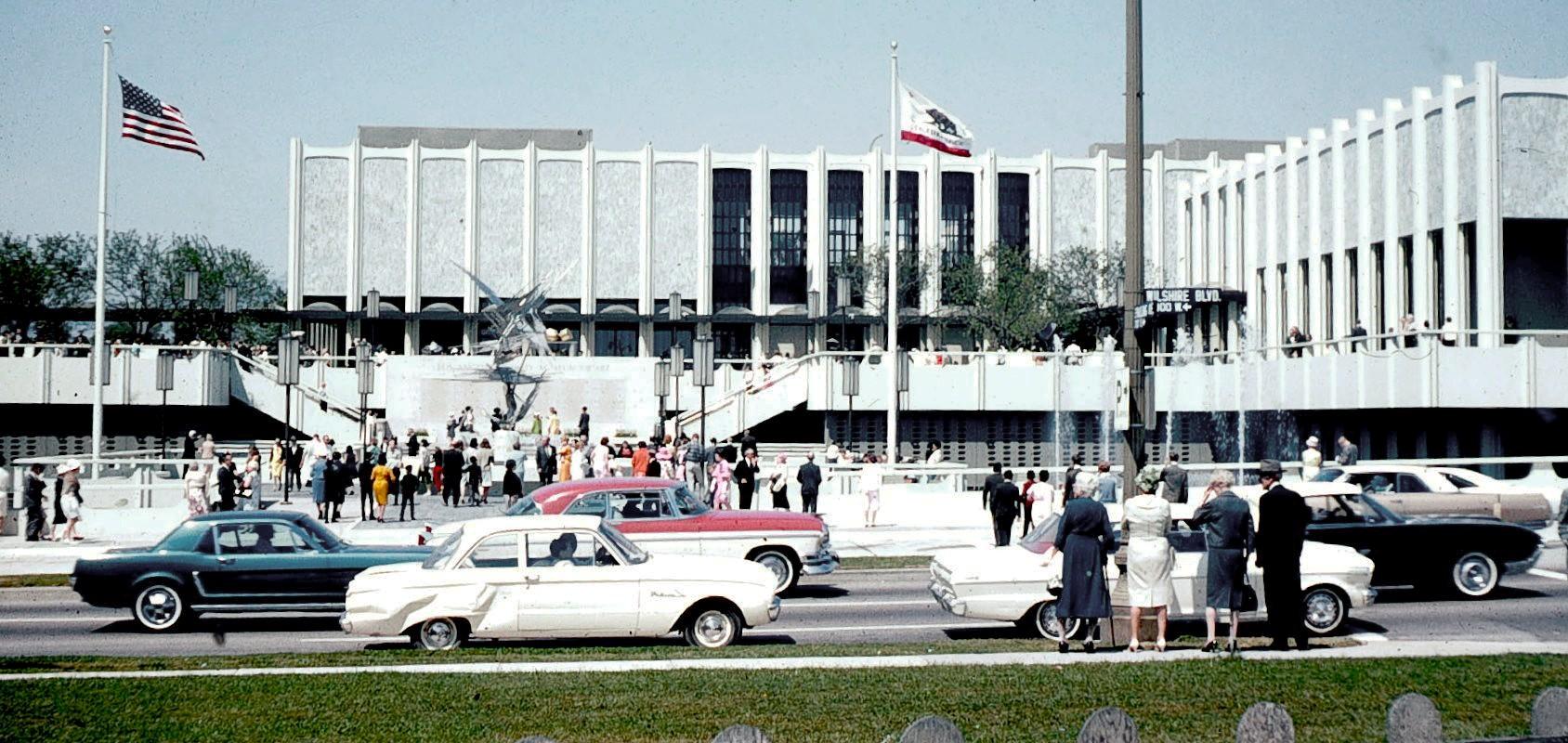 Automobile traffic and people waiting to cross Wilshire Boulevard in front of the Los Angeles County Museum of Art, 1965 Other information Photo by George Garrigues